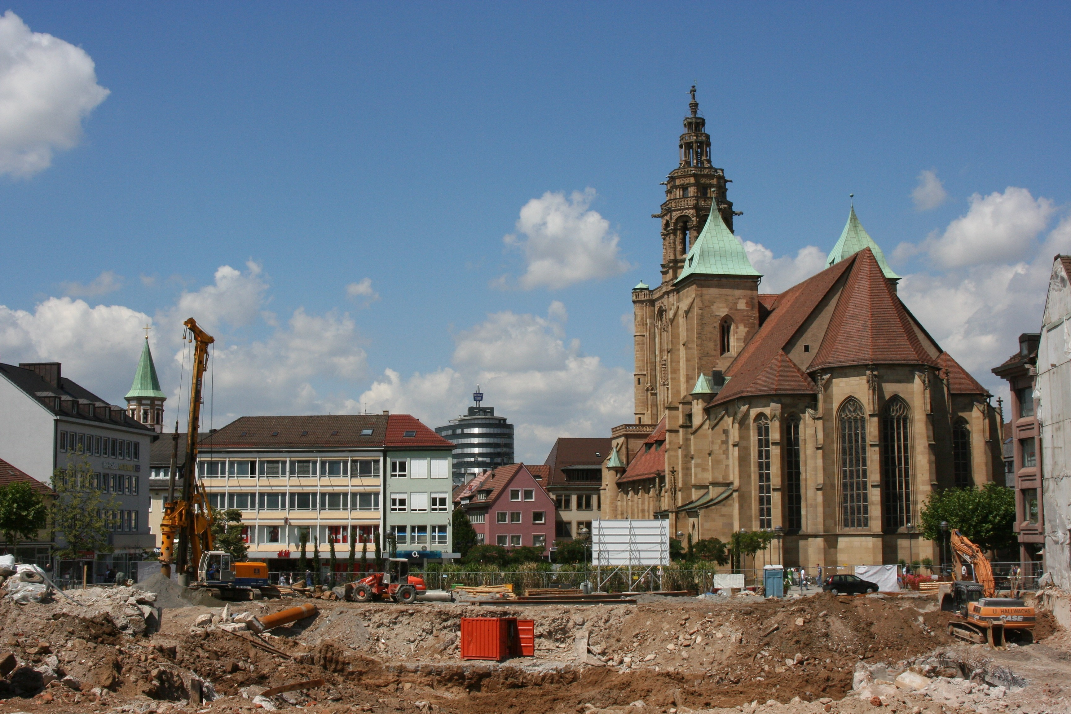 Construction work at the Kiliansplatz in Heilbronn